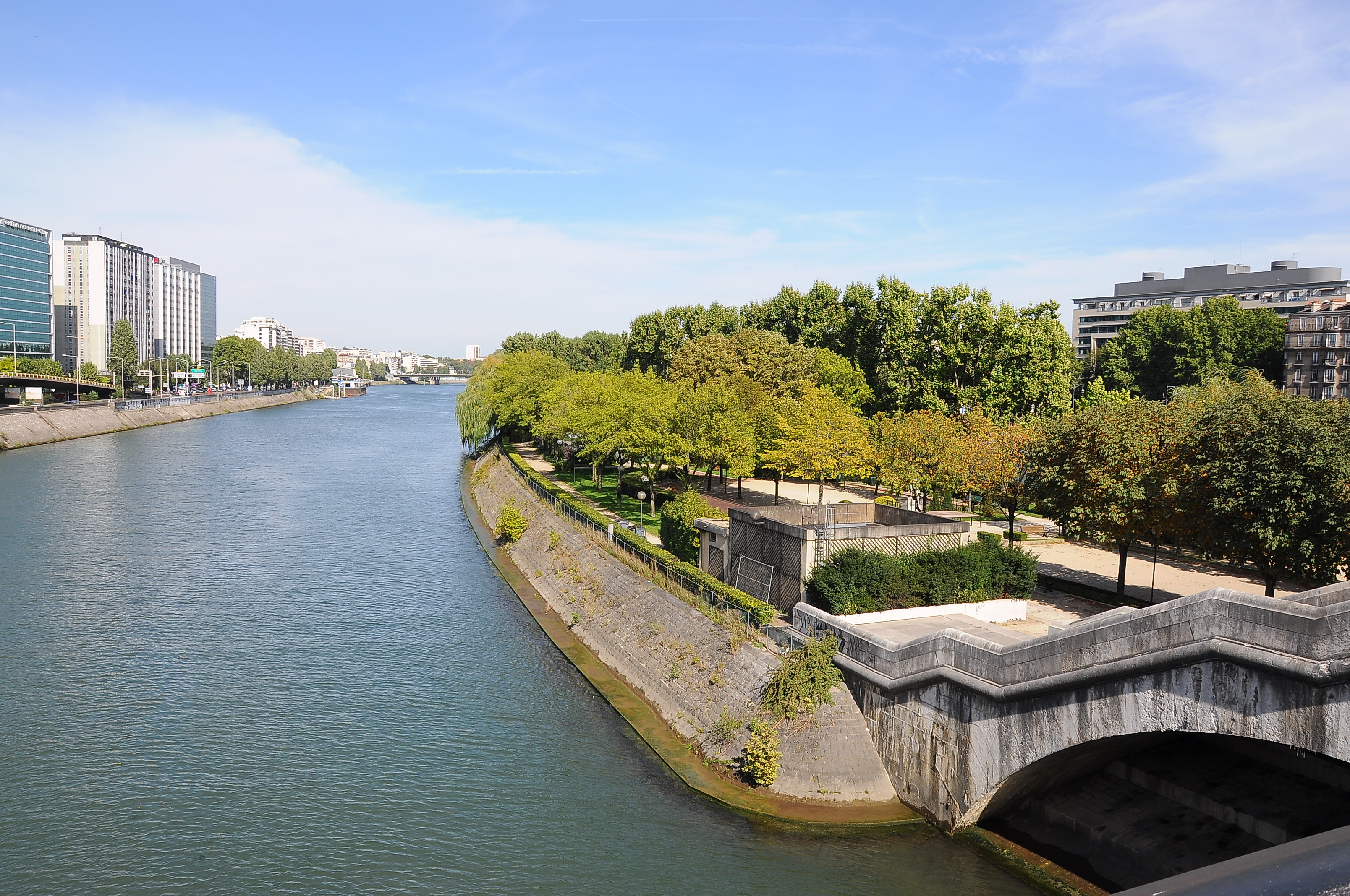 Northeast head of island Île de Puteaux from the Pont de Neuilly bridge in Hauts-de-Seine department of France.